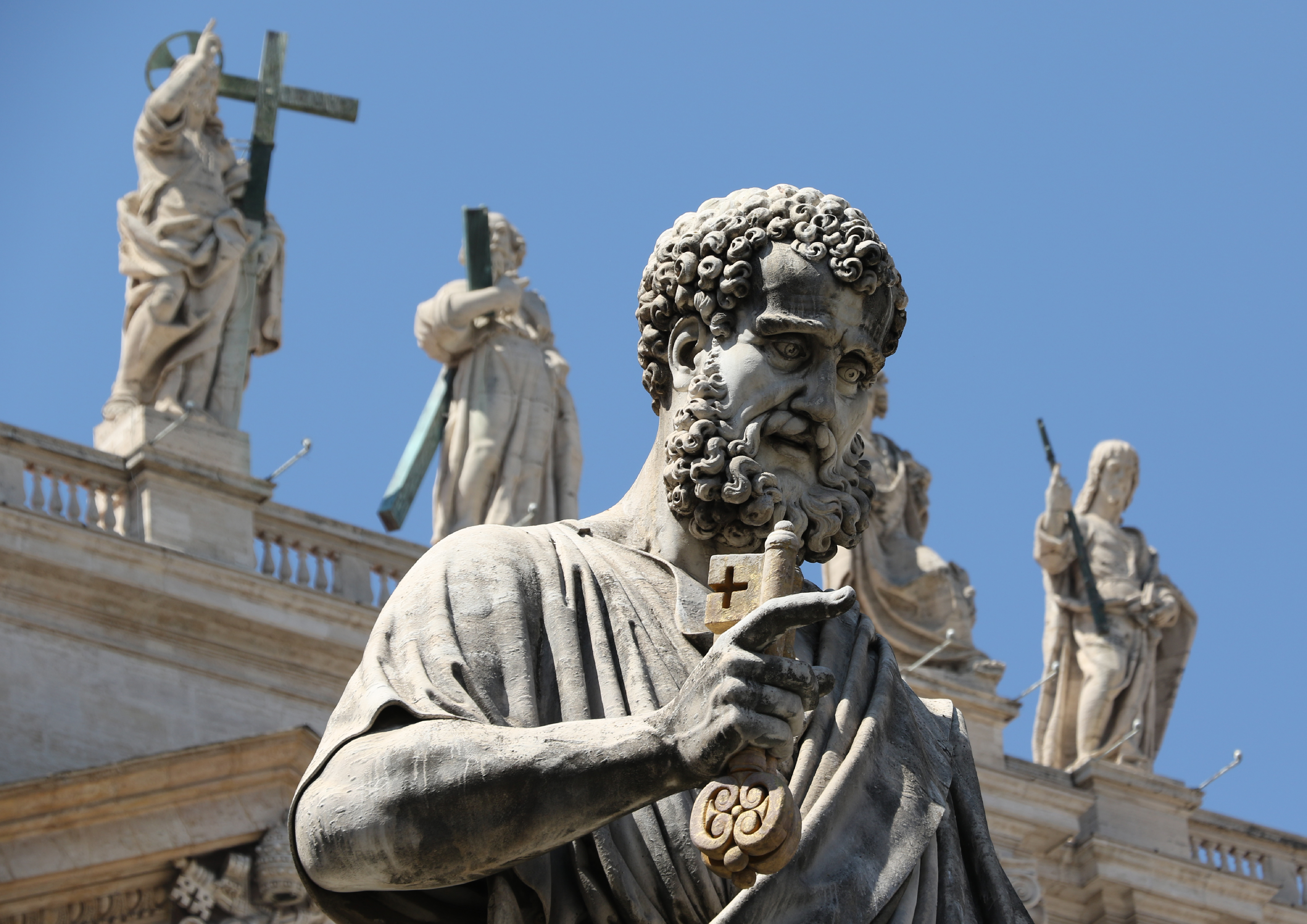 Saint Peter's statue made by Giuseppe De Fabris - St. Peter's Square